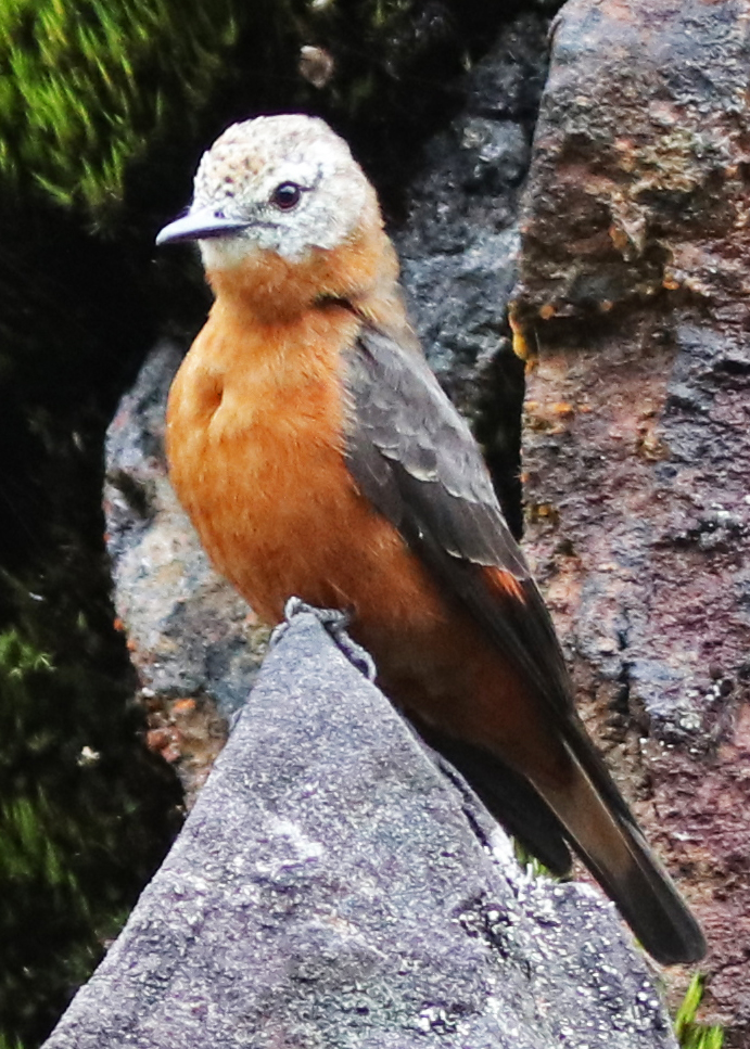 Photo of Cliff Flycatcher taken on the eastern slope of the Andes in northeastern Ecuador